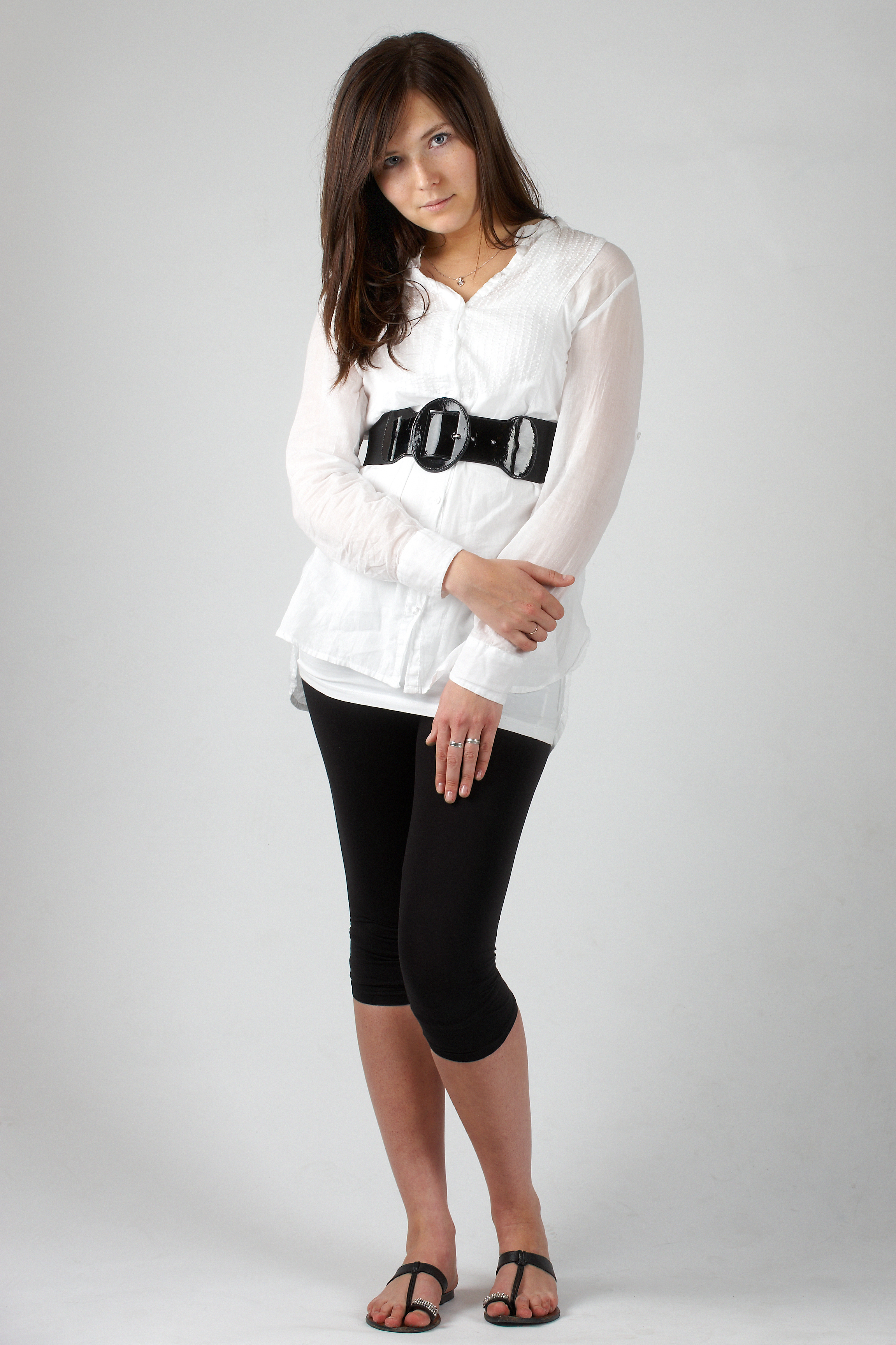 Woman in white Shirt and black pants. Detail note: She is wearing a long shirt under the translucent blouse which also covers the top portion of the form revealing leggings. Similar to a dress.